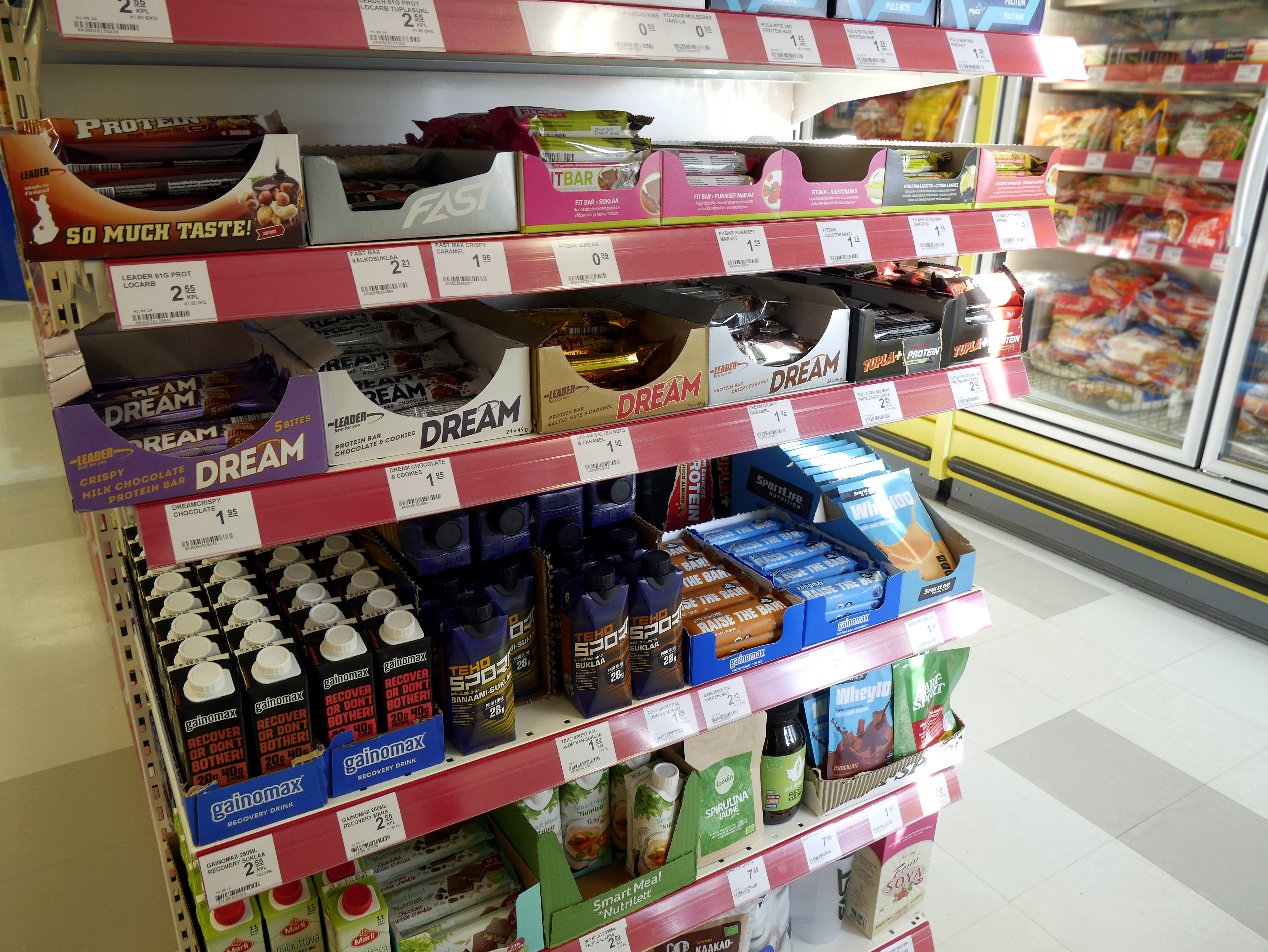 Bodybuilding supplements in store.